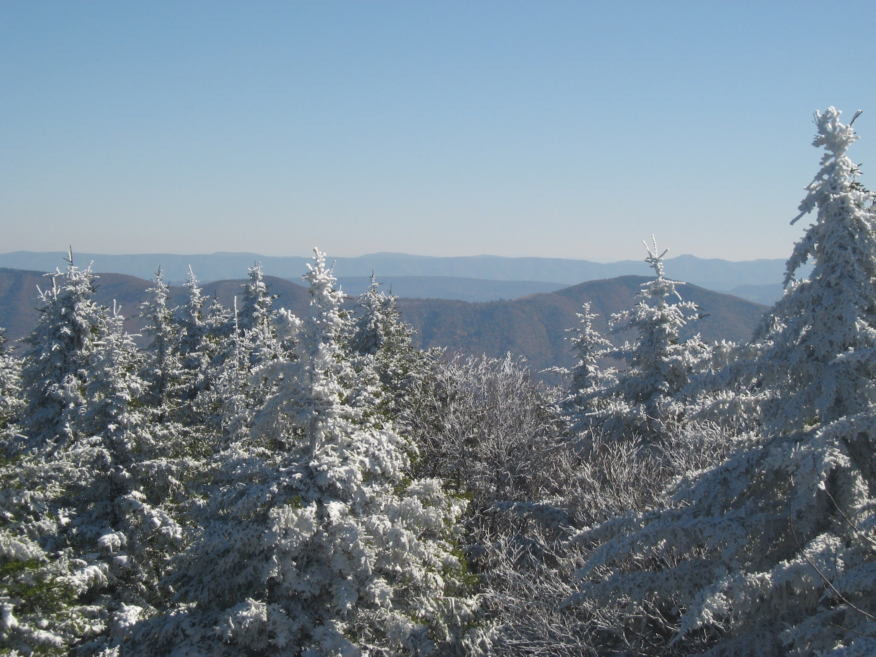 View from atop Spruce Knob summit.